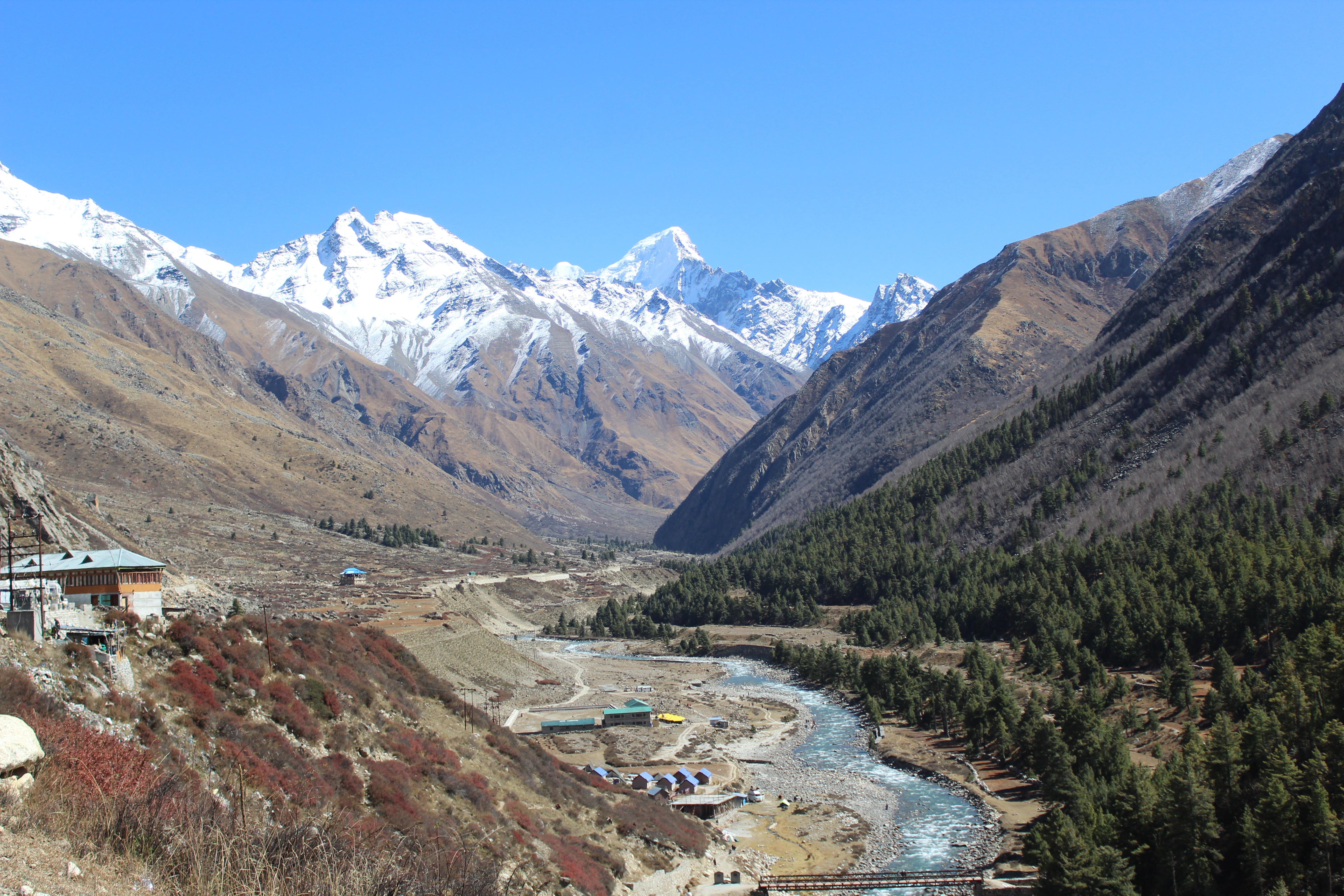 Chitkul border of India . Last village of india.